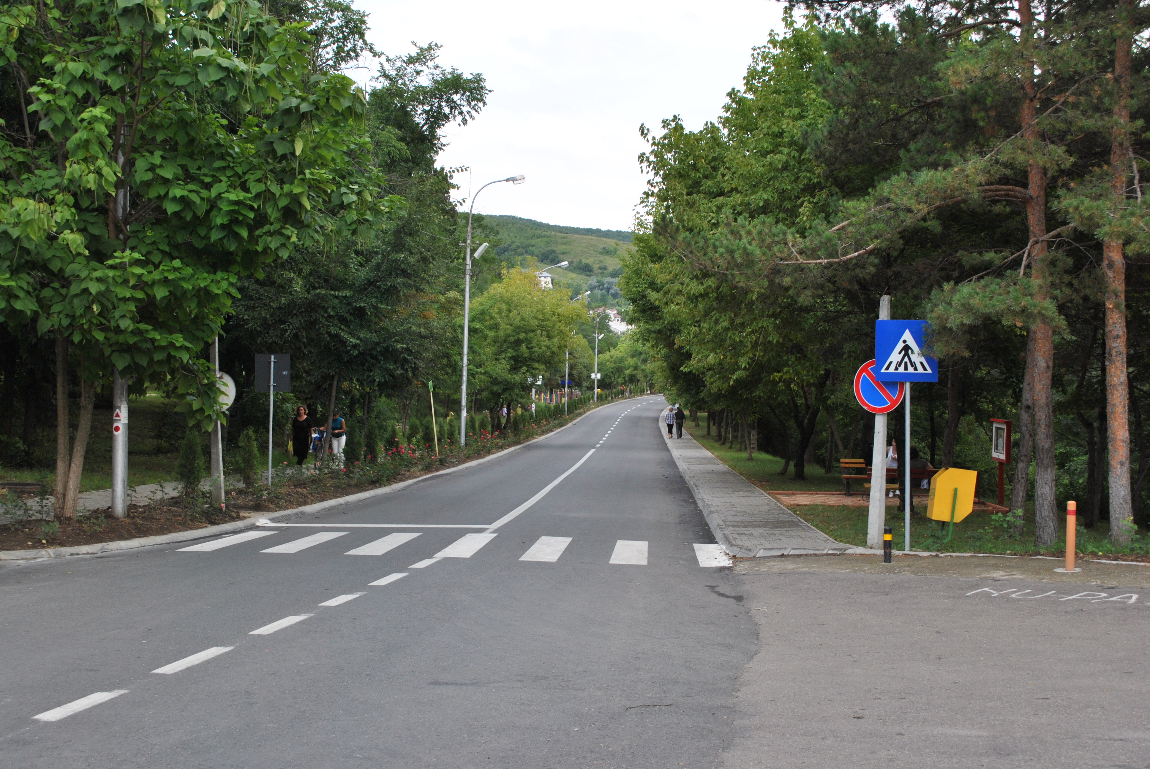 The main street in Sărata Monteoru, Buzău County, Romania